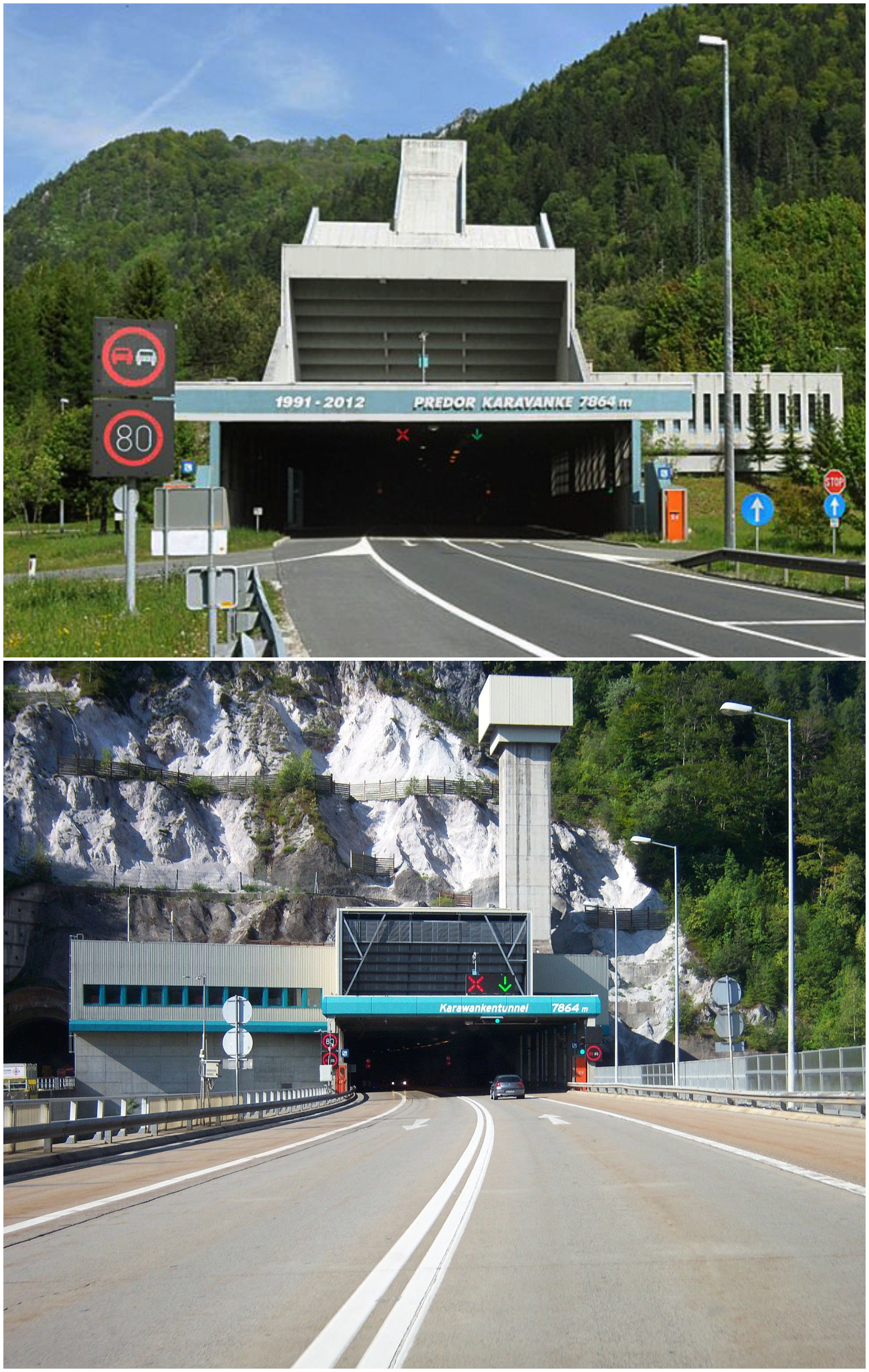 Collage Karawanks Tunnel, Southportal 2012 (top), Northportal 2013 (bottom), own work merged with